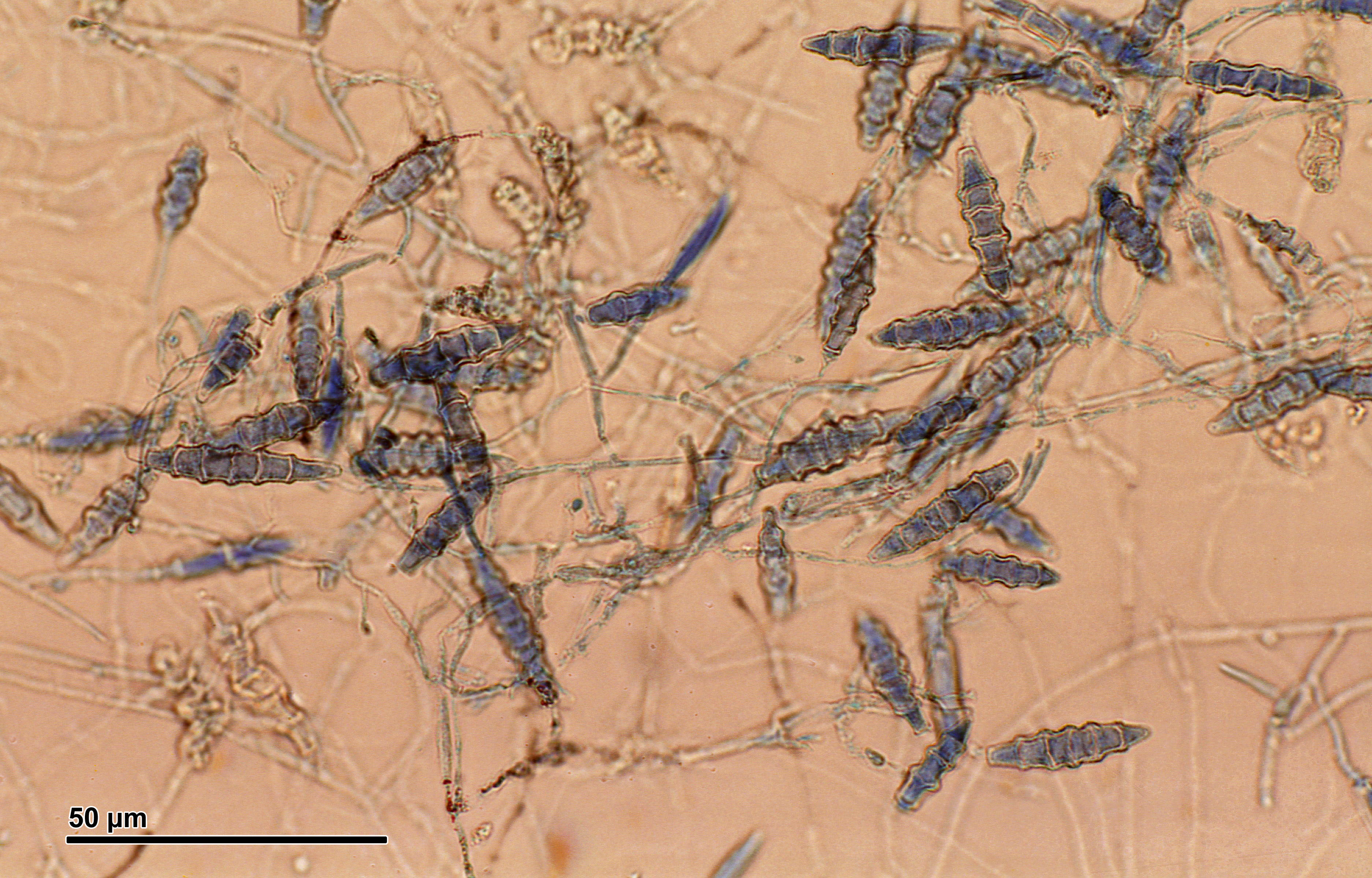 Microsporum gypseum (Microsporum gypseum): Microculture. Stain: Prussian blue. Optical microscopy technique: Bright field. Magnification: 1200x (for picture width 26 cm ~ A4 format).